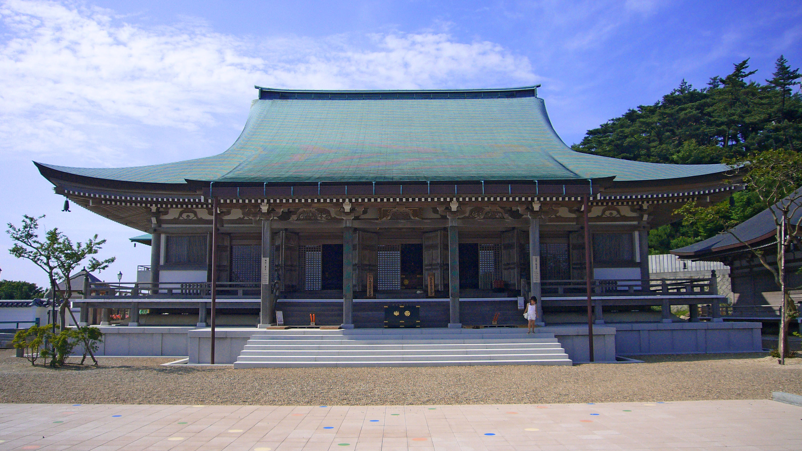 Tōri Tenjō-ji temple in Kobe, Japan